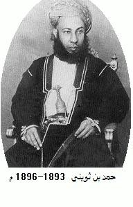 sultan Hamad_bin_Thwiny of zanzibar, he ruled between 1893 - 1896